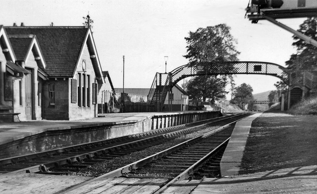 Bunchrew Station (remains). View eastward, towards Inverness. This was the first station out of Inverness on the ex-Highland Far North main line to Dingwall, Invergordon, Helmsdale and Wick. The station had been closed to passengers on 13/6/60, but was open to goods until 27/1/64.